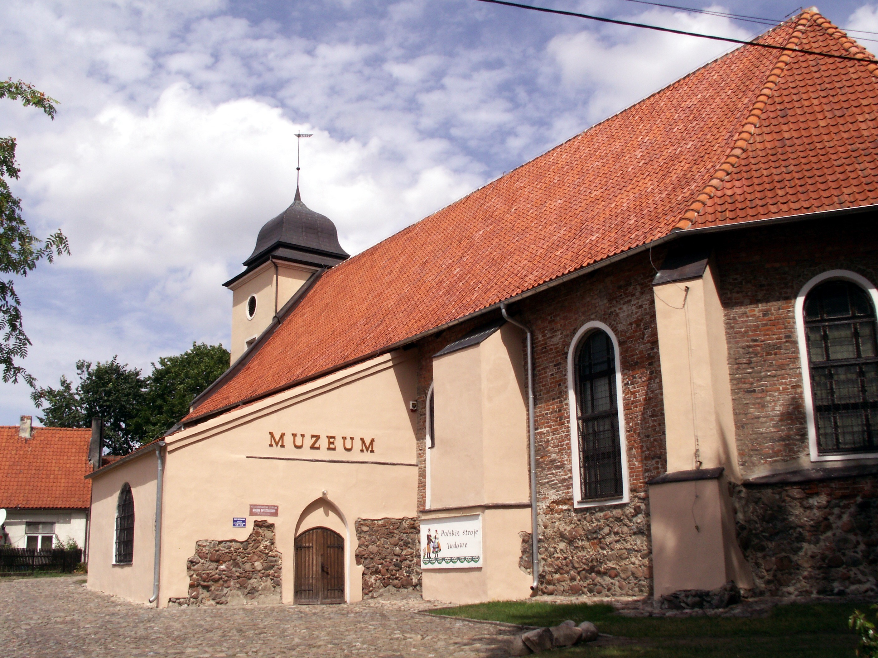 Olsztynek